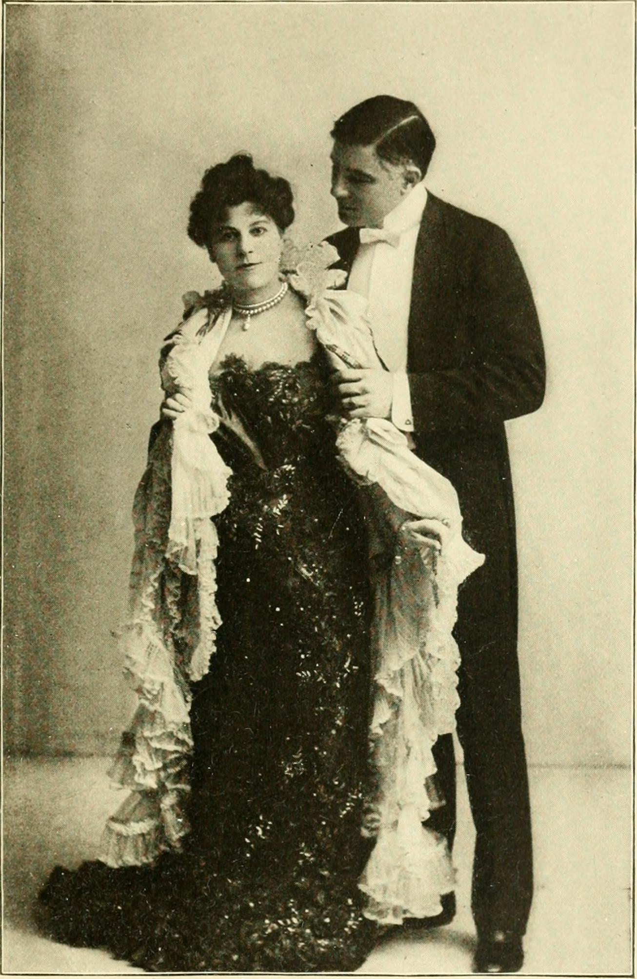 Jessie Millward and Charles Richman in Mrs. Dane's Defence Title: Players and plays of the last quarter century; an historical summary of causes and a critical review of conditions as existing in the American theatre at the close of the nineteenth century Year: 1903 (1900s) Authors: Strang, Lewis Clinton, 1869-1935 Subjects: Theater -- History Theater -- United States Acting and actors Publisher: Boston, L.C. Page